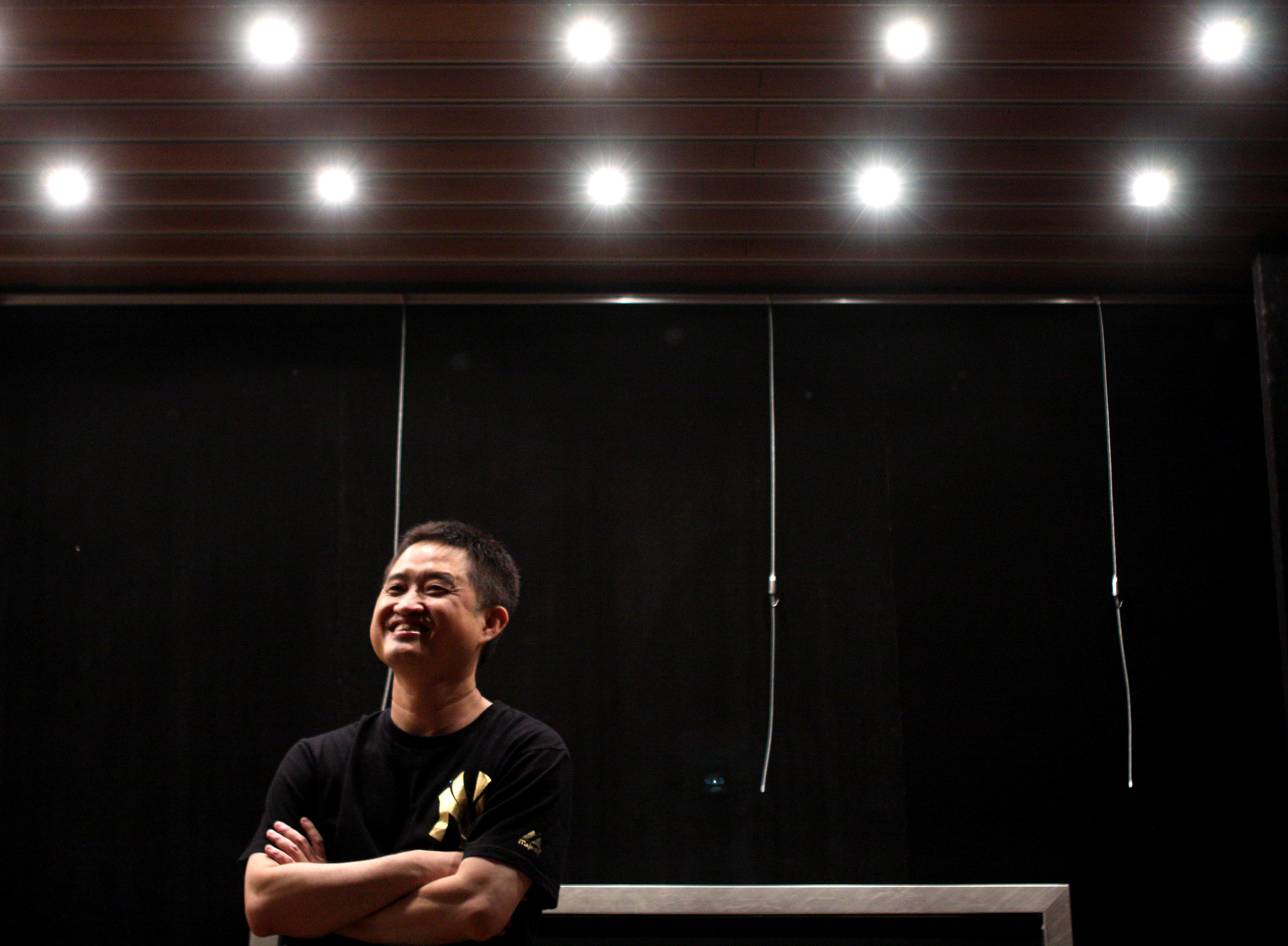 Rose Artist Robert, Huang in Taiwan